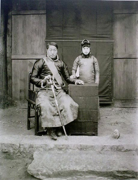 Yin Changheng and his wife Yan Ji